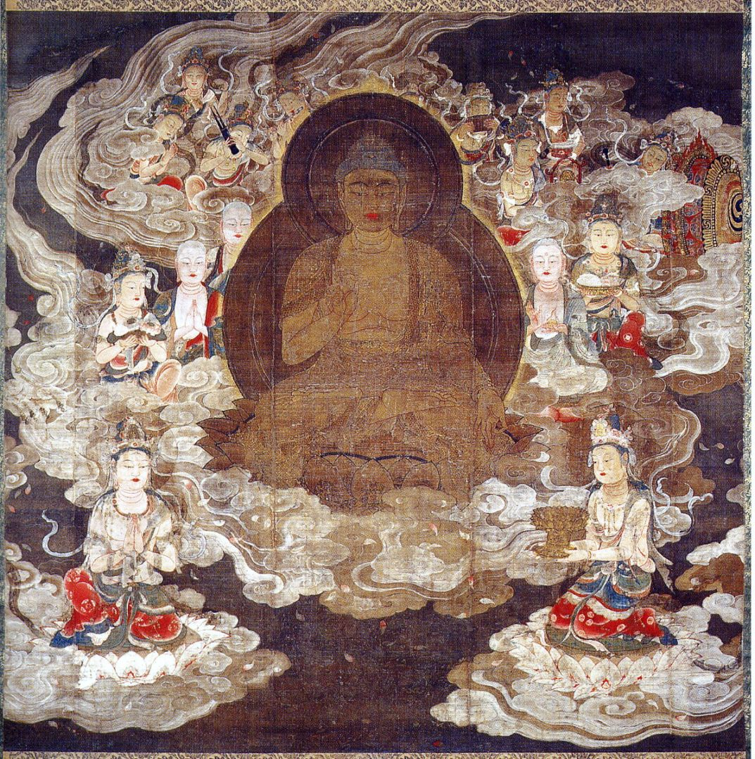 Eshin Sōzu?: Amida and 25 bosatsu, 12th-century. Color on silk, triptic 211x83 cm. Kongōbu-ji, Kōya-san, Wakayama prefecture.